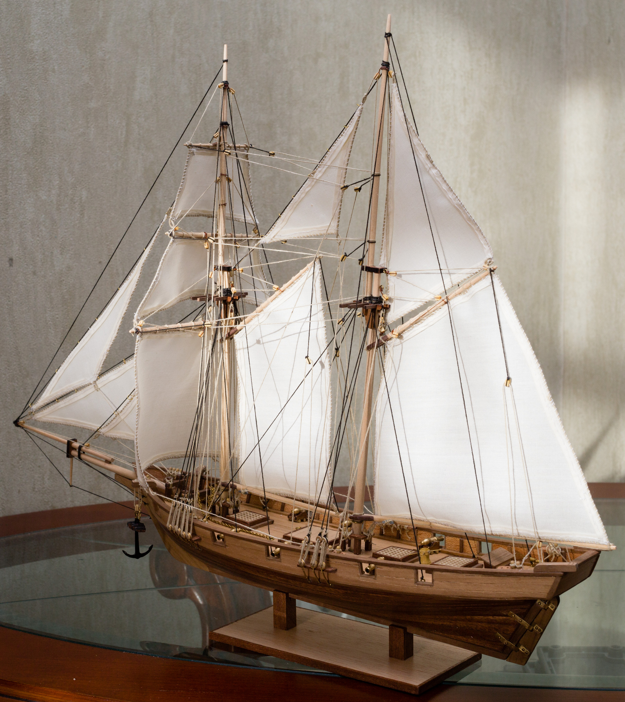 1:55 scale model of Albatros clipper